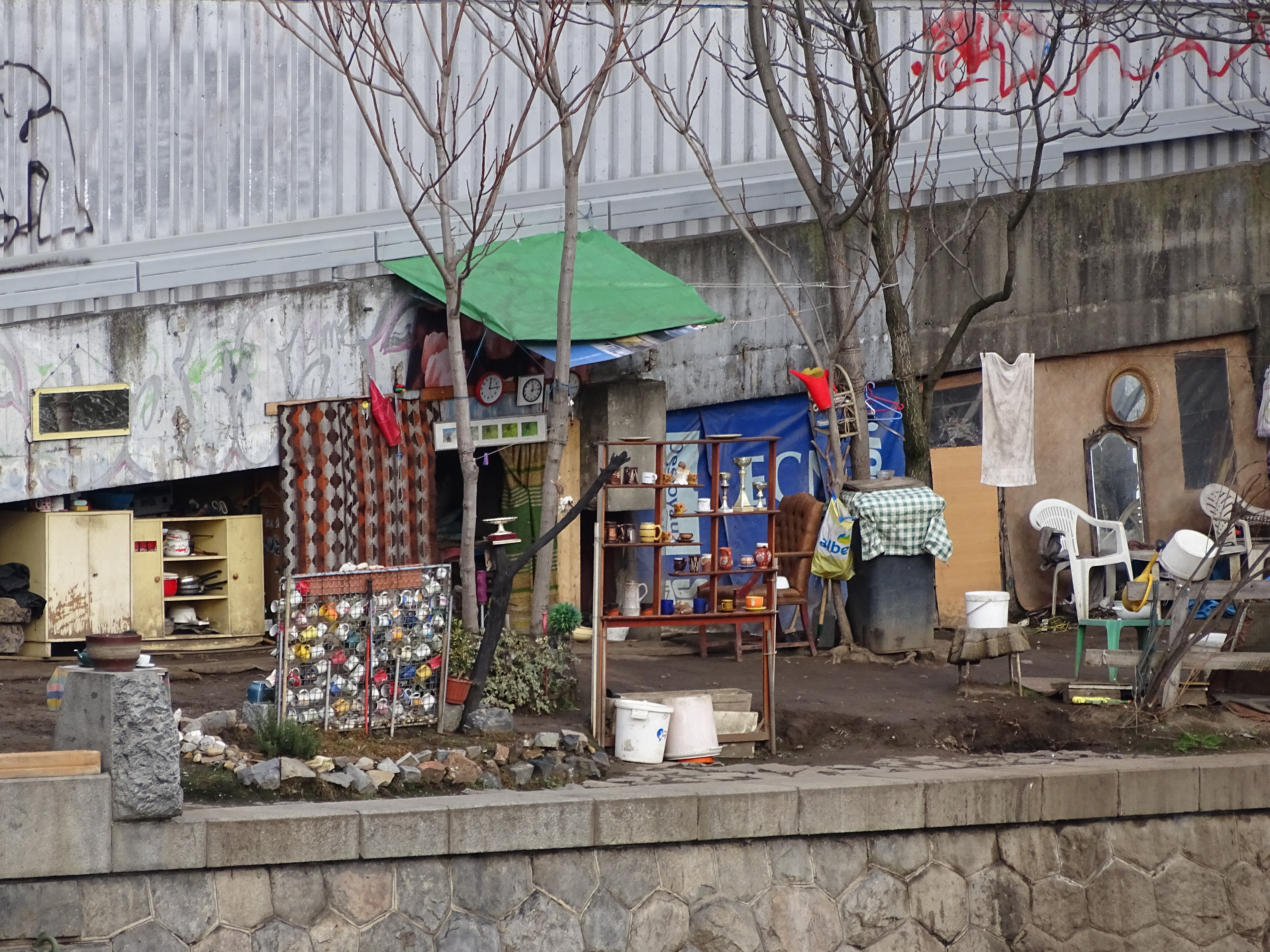 Prague-Holešovice, Czech Republic. Hlávkův most, a view to Bubenské nábřeží.